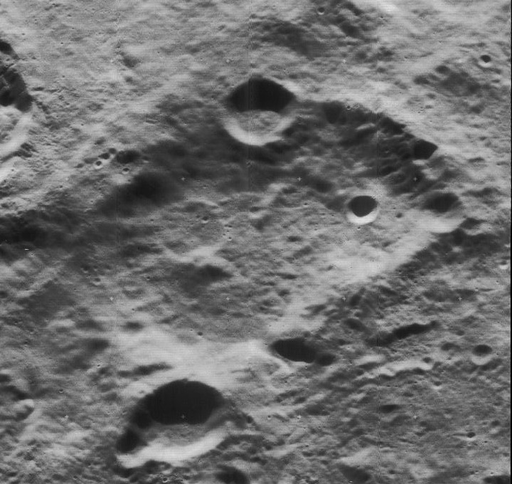 Oblique view of Seneca, on the moon, facing west.